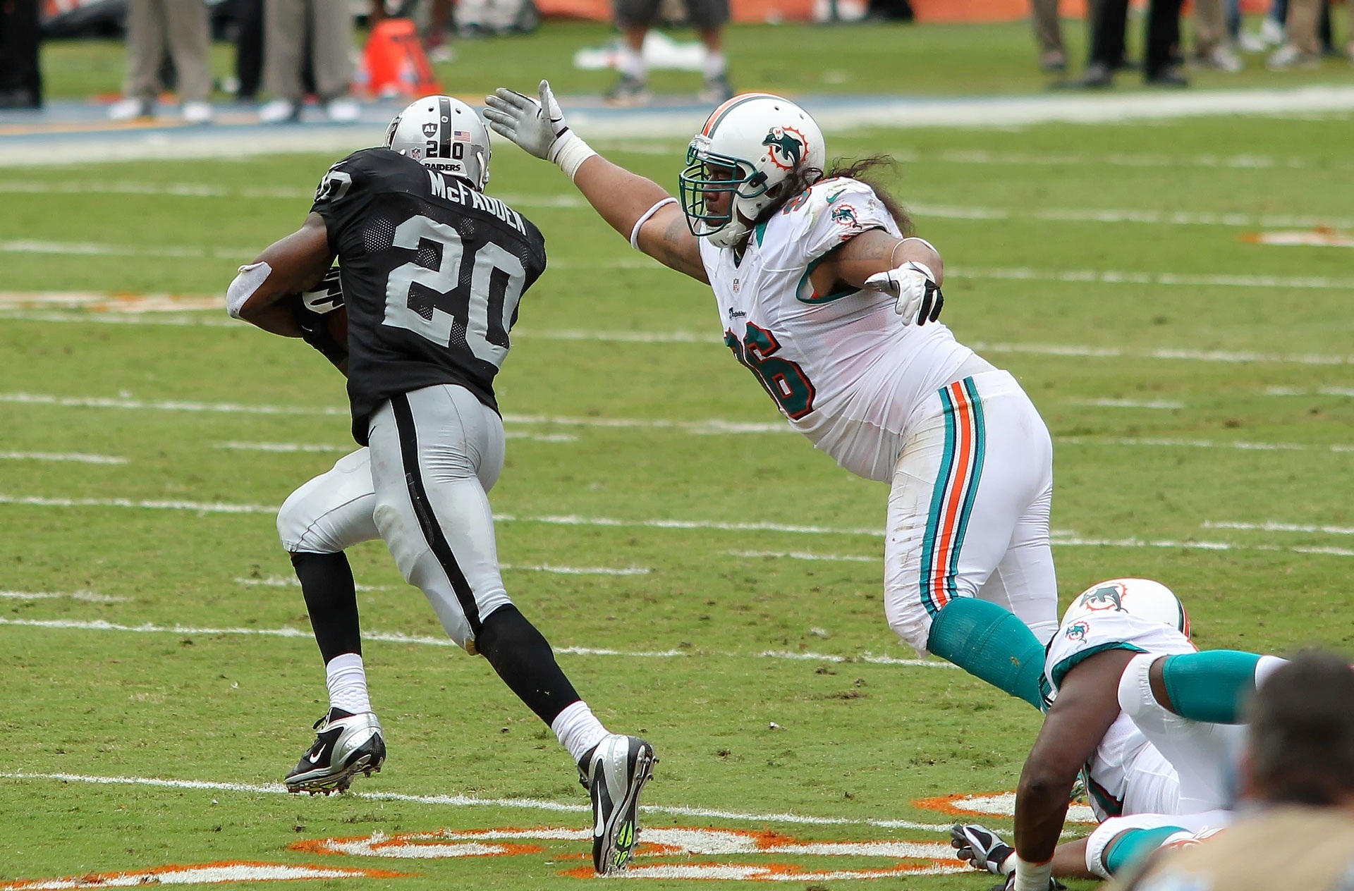 Oakland's RB Darren McFadden escapes a tackle for a long gain.